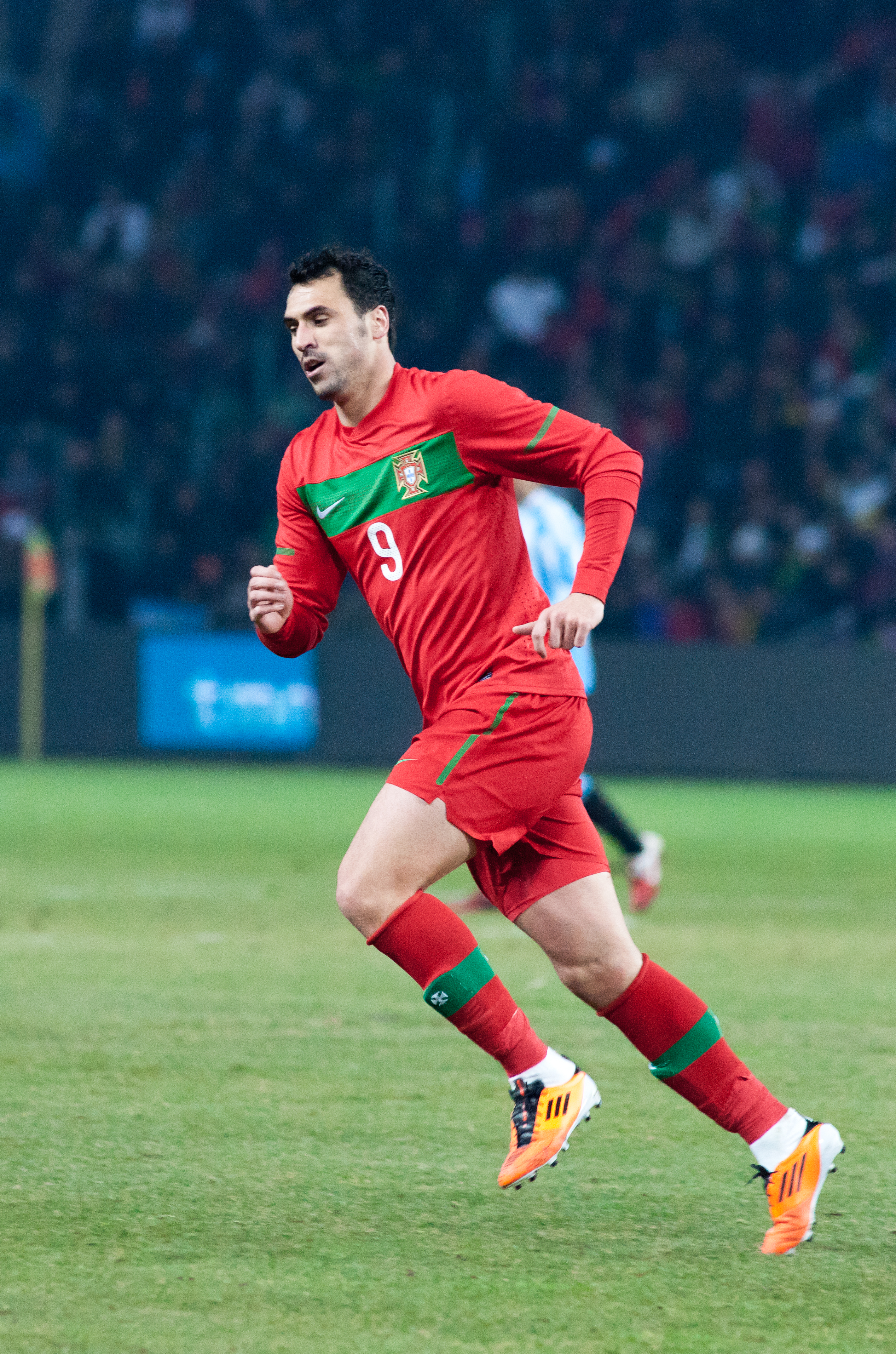 The making of this document was supported by Wikimedia CH. (Submit your project!) For all the files concerned, please see the category Supported by Wikimedia CH. Portugal vs. Argentina, 9th February 2011